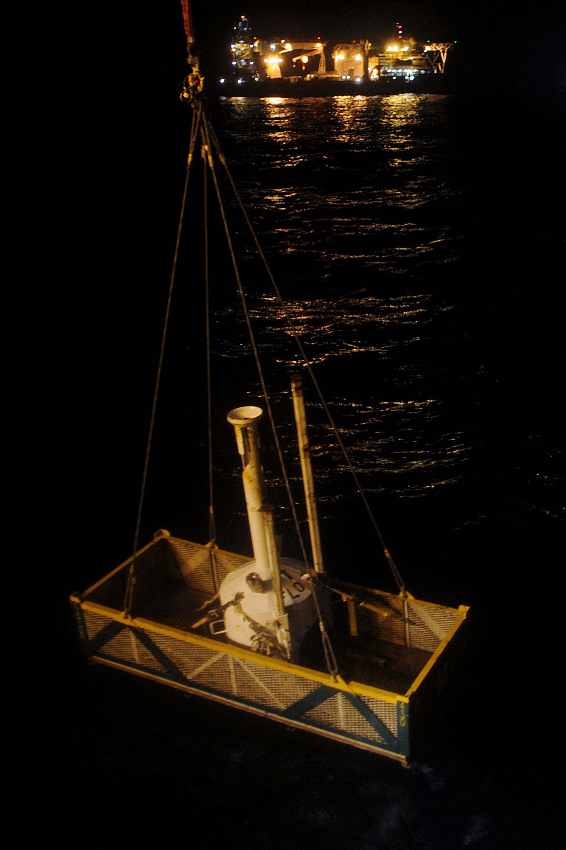 A pollution containment chamber, known as the "top hat", is lowered into the Gulf of Mexico by the motor vessel Viking Poseidon, May 11, 2010. The chamber will be used in an attempt to contain an oil leak that was caused by the mobile offshore drilling unit Deepwater Horizon explosion.